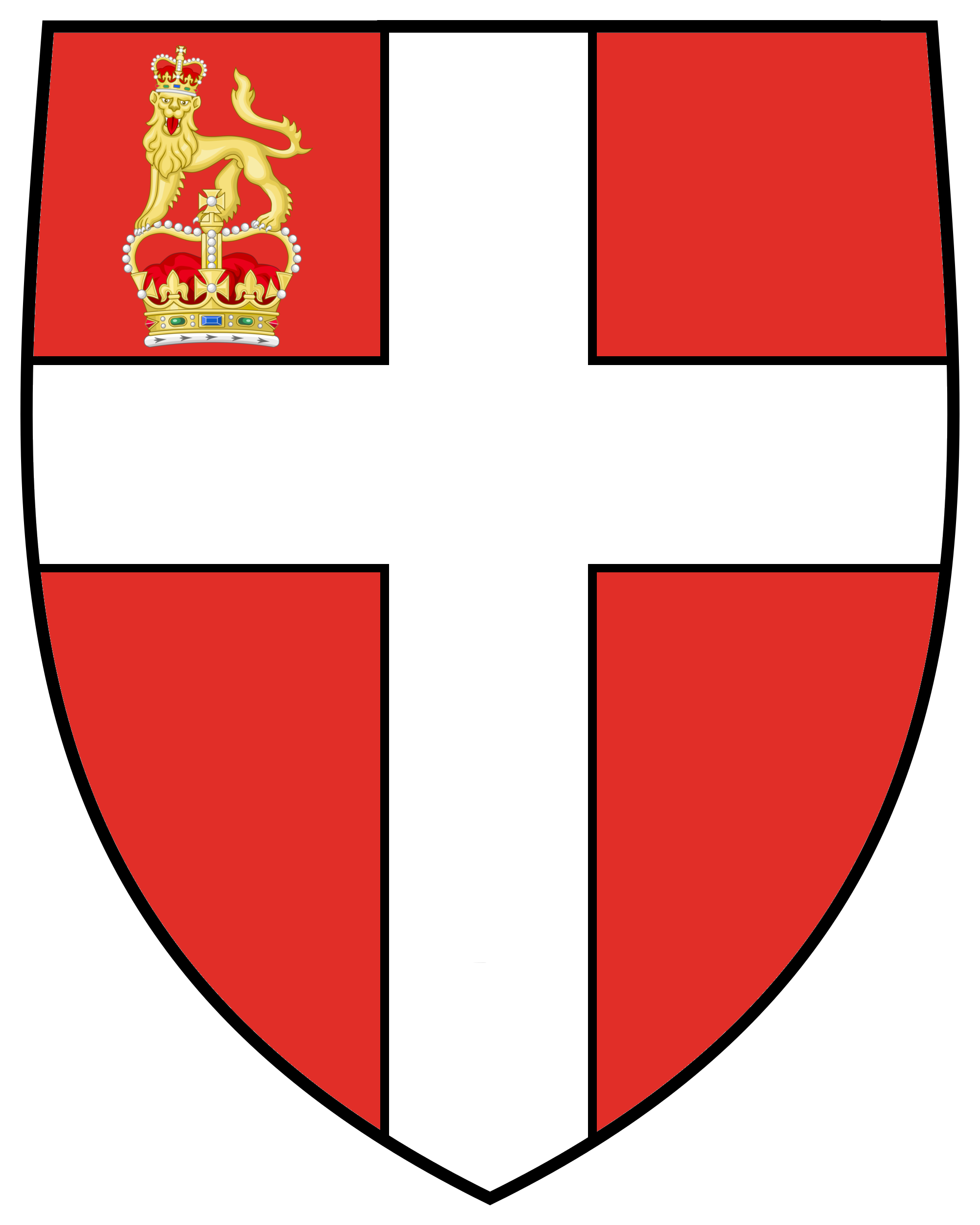 This is the coat of arms of the Most Venerable Order of the Hospital of Saint John of Jerusalem. I created this image from the blazon of the coat of arms.